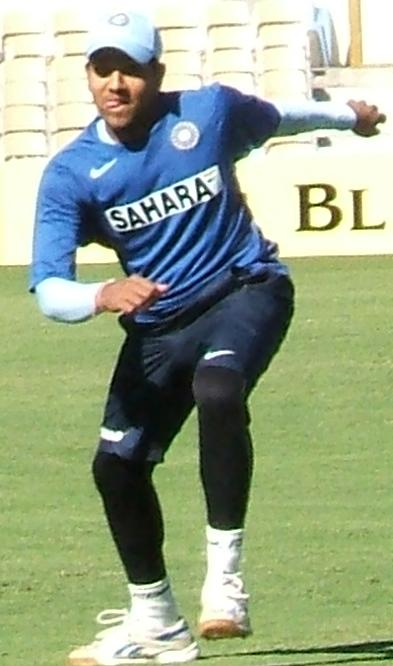 Rohit Sharma fielding at Adelaide Oval